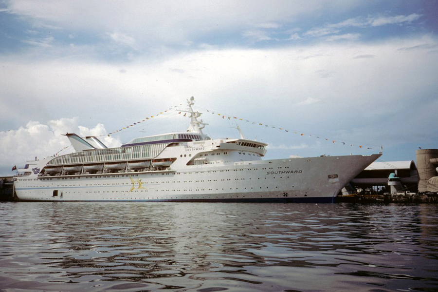 The cruise ship Southward moored in Miami's harbor on May 22, 1981.